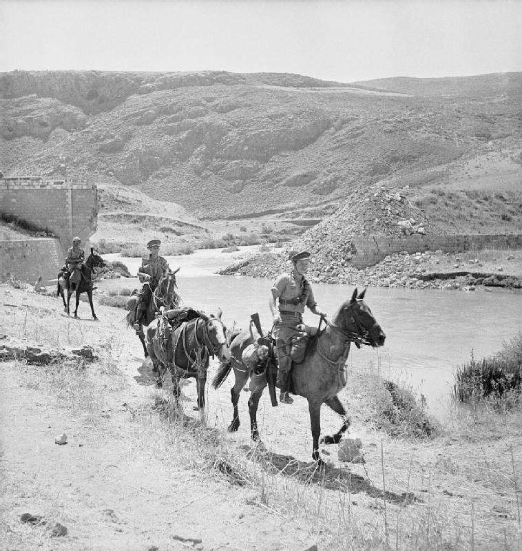 The Cheshire Yeomanry patrolling on horseback at Marjuyan in Syria, 16 June 1941. The Cheshire Yeomanry patrolling on horseback at Marjuyan, Syria. At the outbreak of war, the British Army had only eight mounted units. Its cavalry horses last saw action in the Middle East during 1940-1942 where they were used for patrol and reconnaissance work.